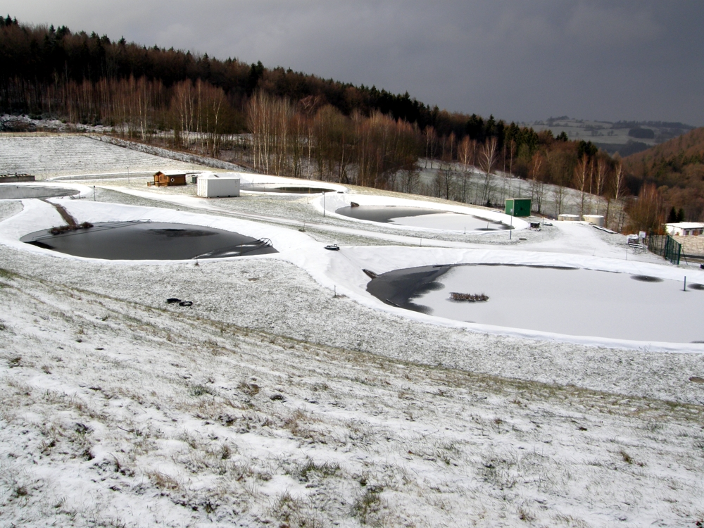 Wetland for mine water treatment at the former uranium mine Poehla in the Erzgebirge Mts., Germany